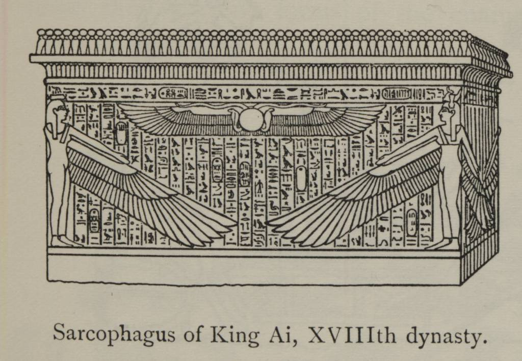 A large rectangular sarcophagus covered in hieroglyphics.